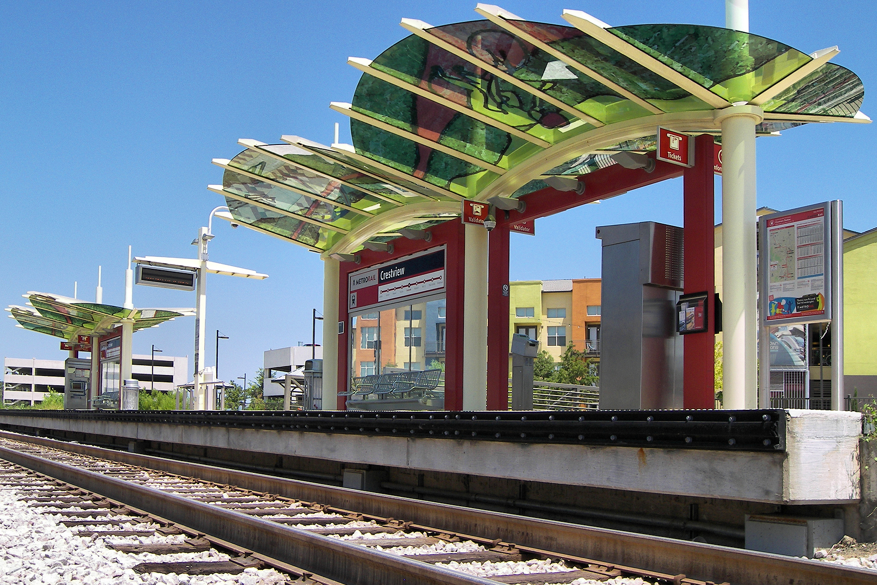 Crestview, a Capital MetroRail station in north Austin, Texas, United States.